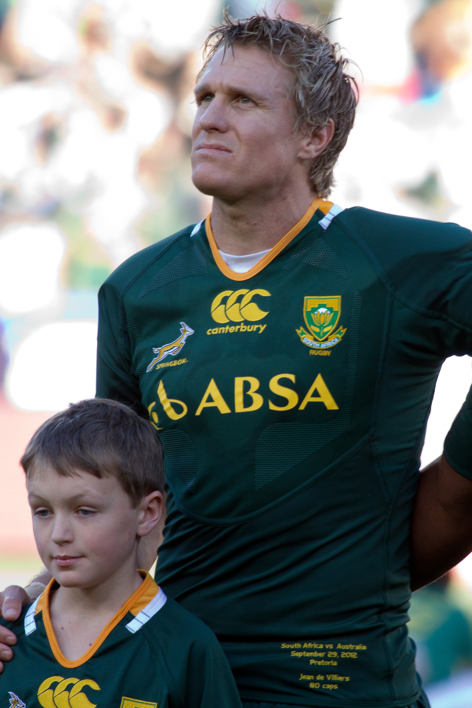 South Africa international rugby union player Jean de Villiers before the game against Australia in The Rugby Championship at Loftus Versfeld Stadium in Pretoria.